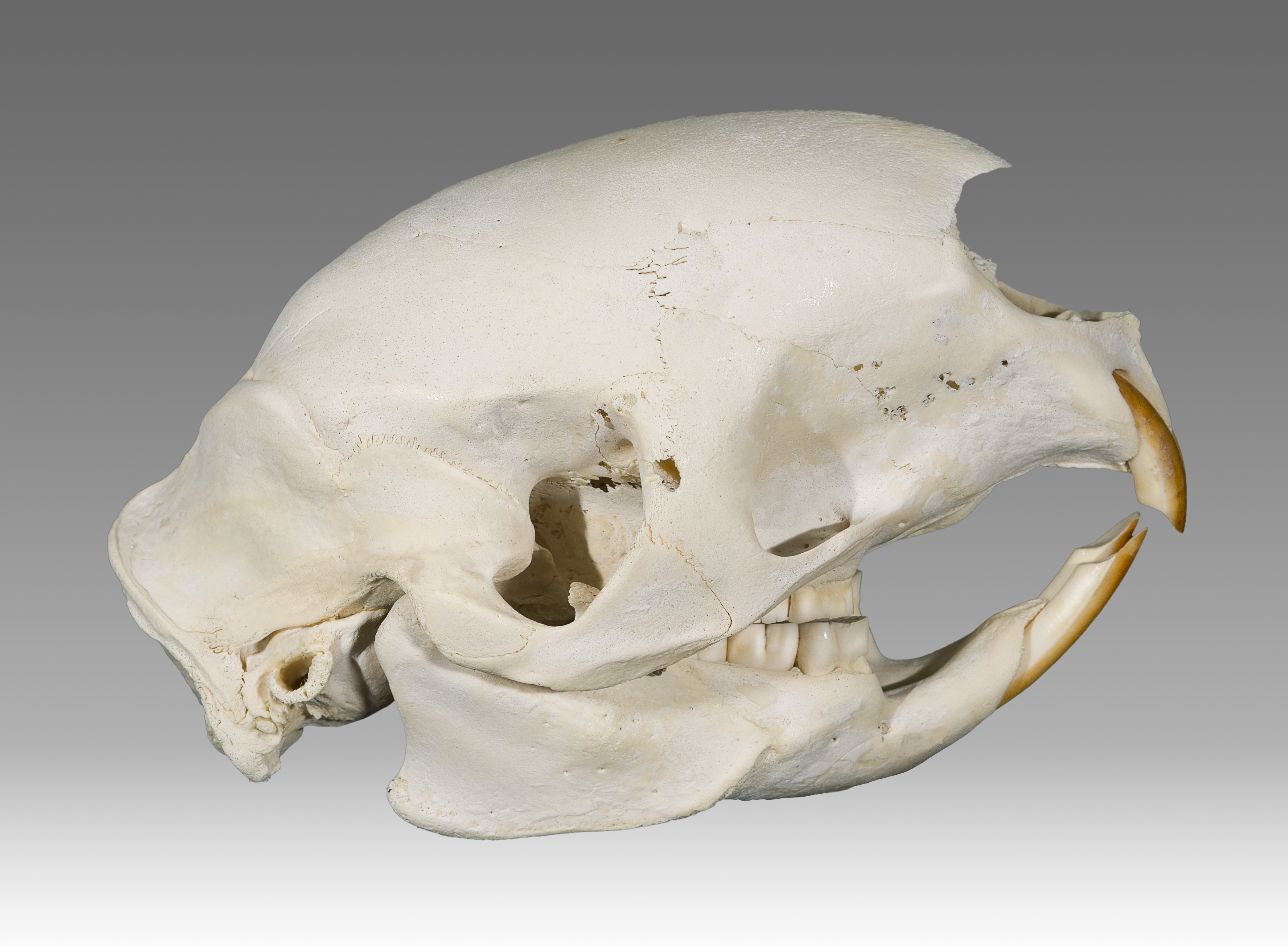 Crested Porcupine ( Hystrix cristata ) Size : 13 x 7 x 9 cm cm